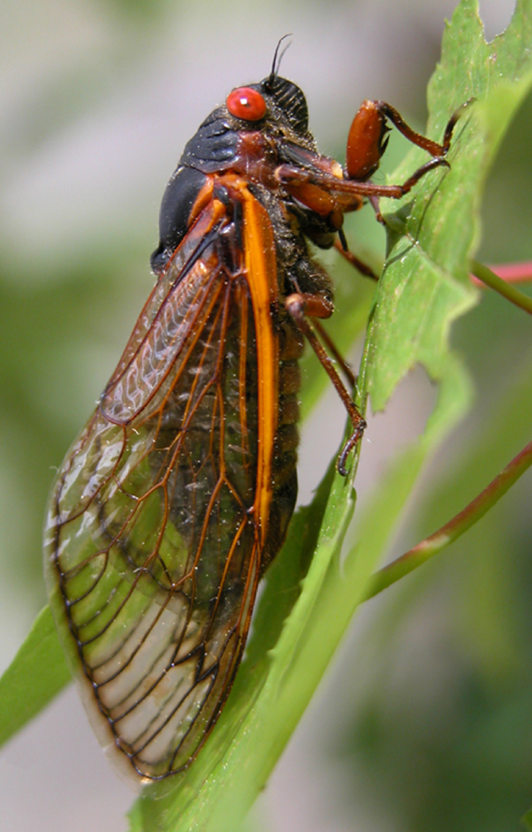 Magicicada septendecim female (Brood X). Photograph by C. Simon.